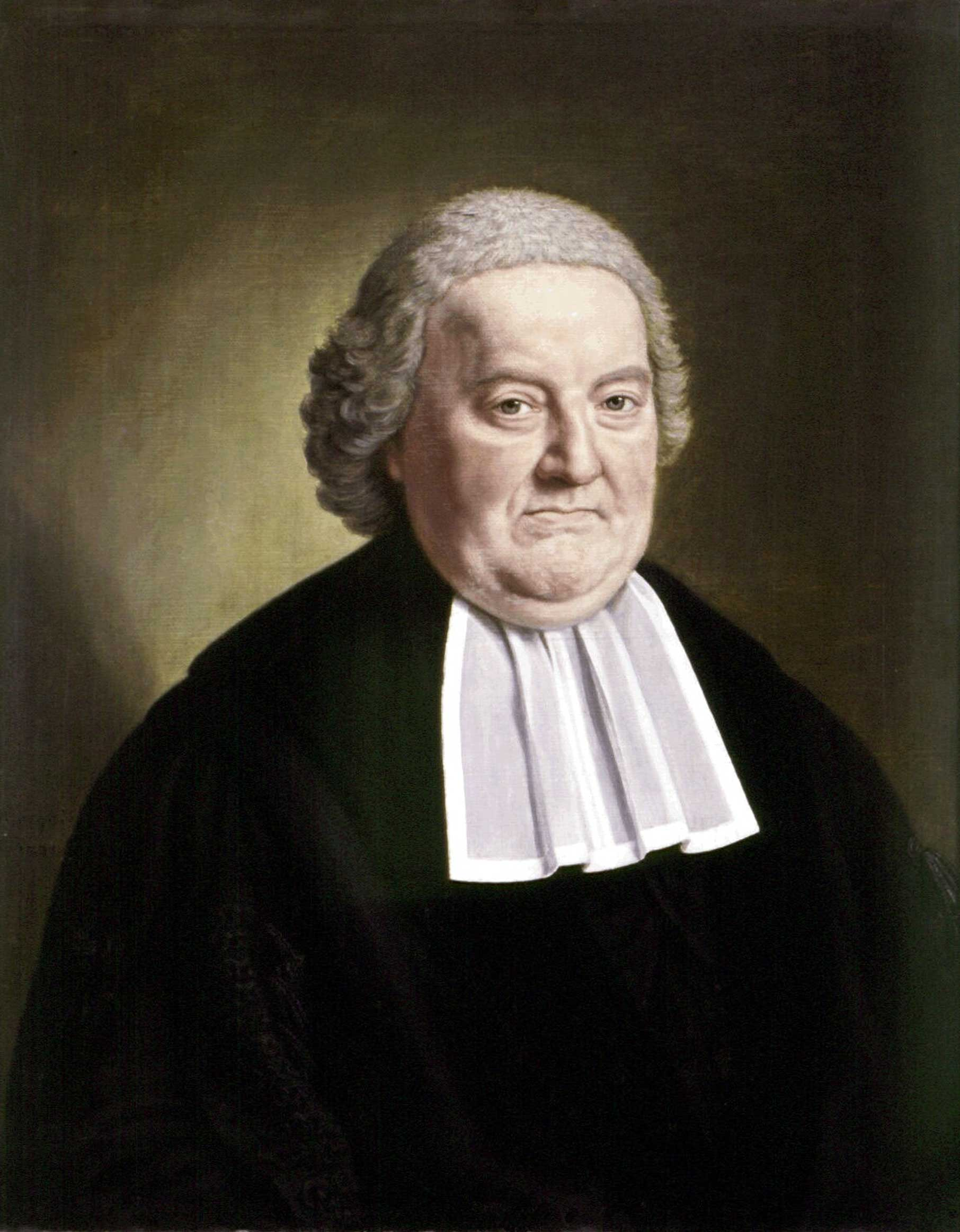 Hermann Royaards (1753-1825), Dutch theologian (Reformed theologian)